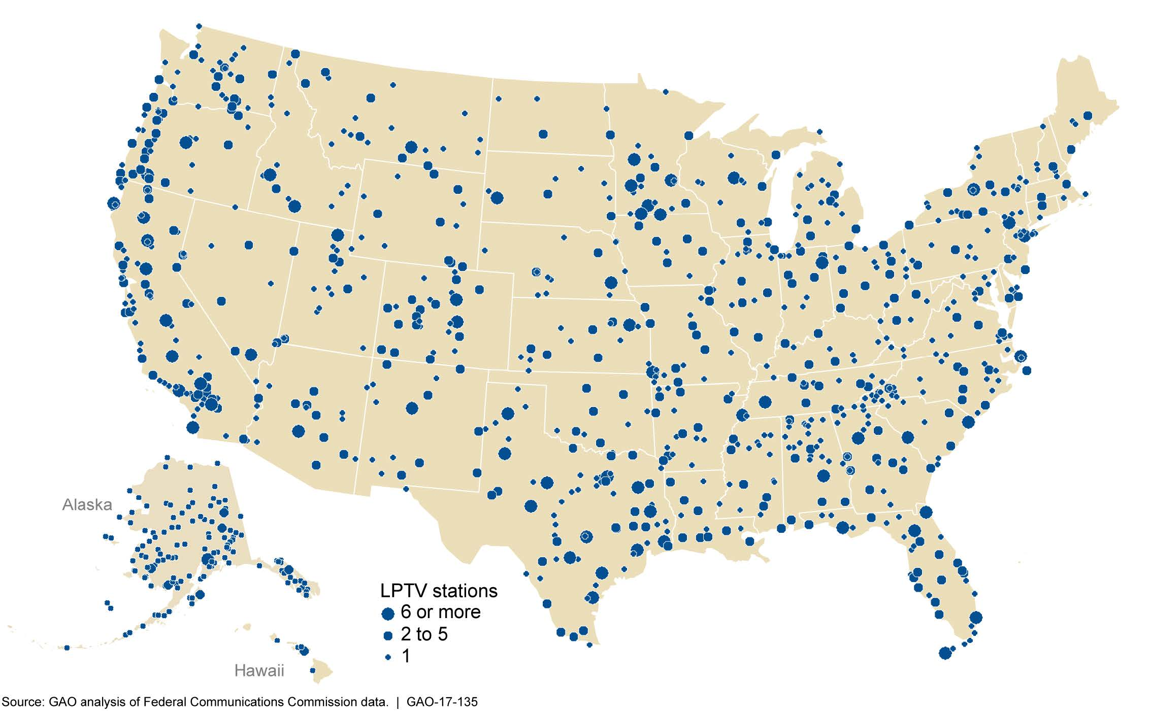 This image is excerpted from a U.S. GAO report: TELECOMMUNICATIONS: Information on Low Power Television, FCC's Spectrum Incentive Auction, and Unlicensed Spectrum Use Note: LPTV stations' communities of license are also located in the U.S. territories.